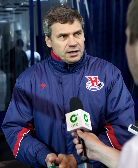 HC Sibir Novosibirsk head coach Dmitri Kvartalnov after his team ice practice on July 13, 2013